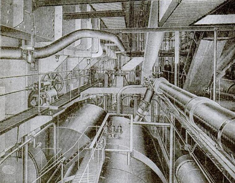 Engine room of the turbine steamer RMS Carmania